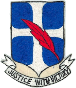 Emblem of the 95th Bombardment Wing (SAC)